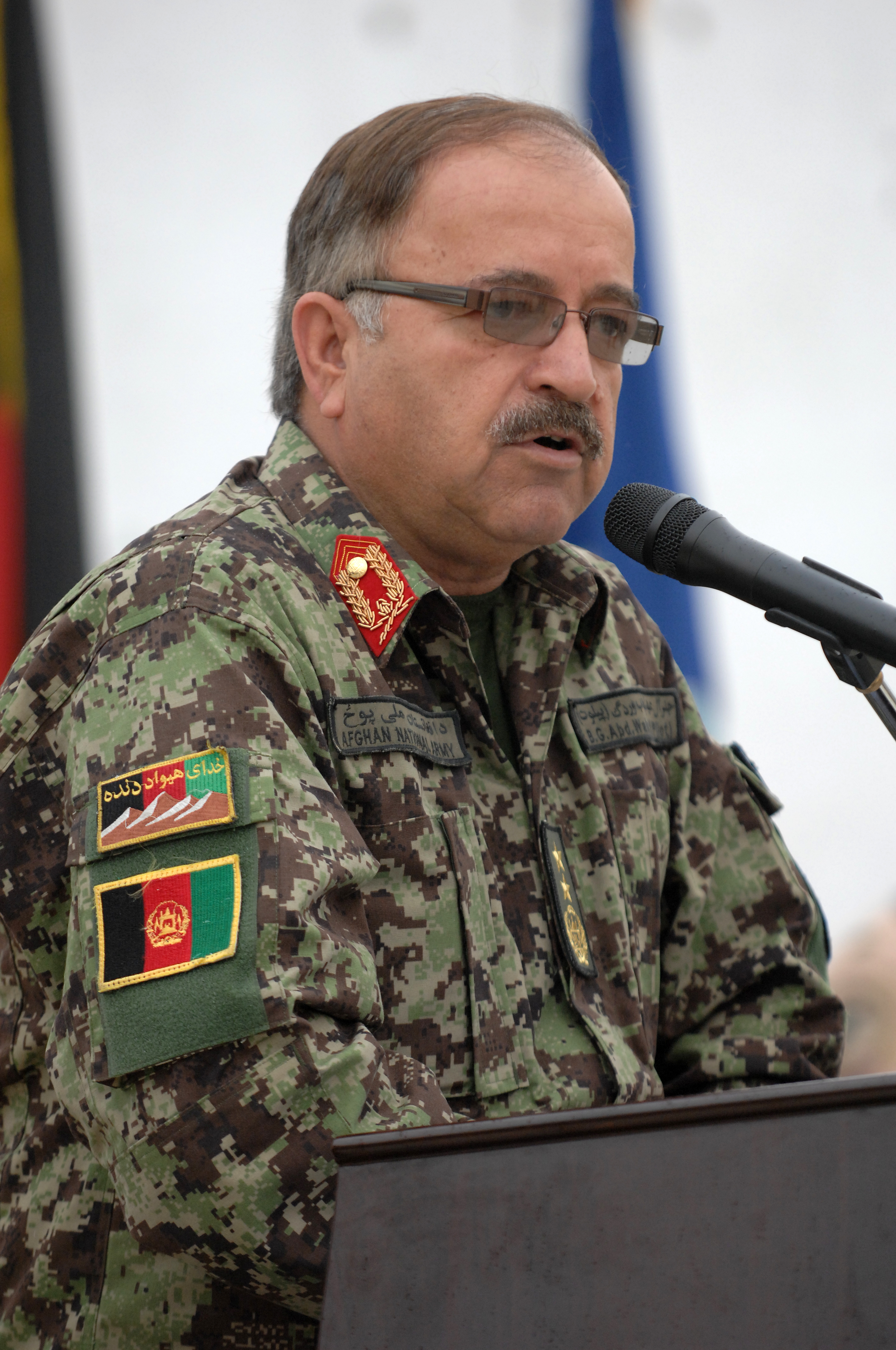 Maj. Gen. Abdul Wahab Wardak, Afghan air force commander, speaks during a change of command ceremony at Kabul International Airport, Oct. 22, 2011. Lt. Col. Bryan Wood took over command from Lt. Col. Mike Smith as 538th Air Expeditionary Advisory Squadron commander. (U.S. Air Force photo by Staff Sgt. Matthew Smith)